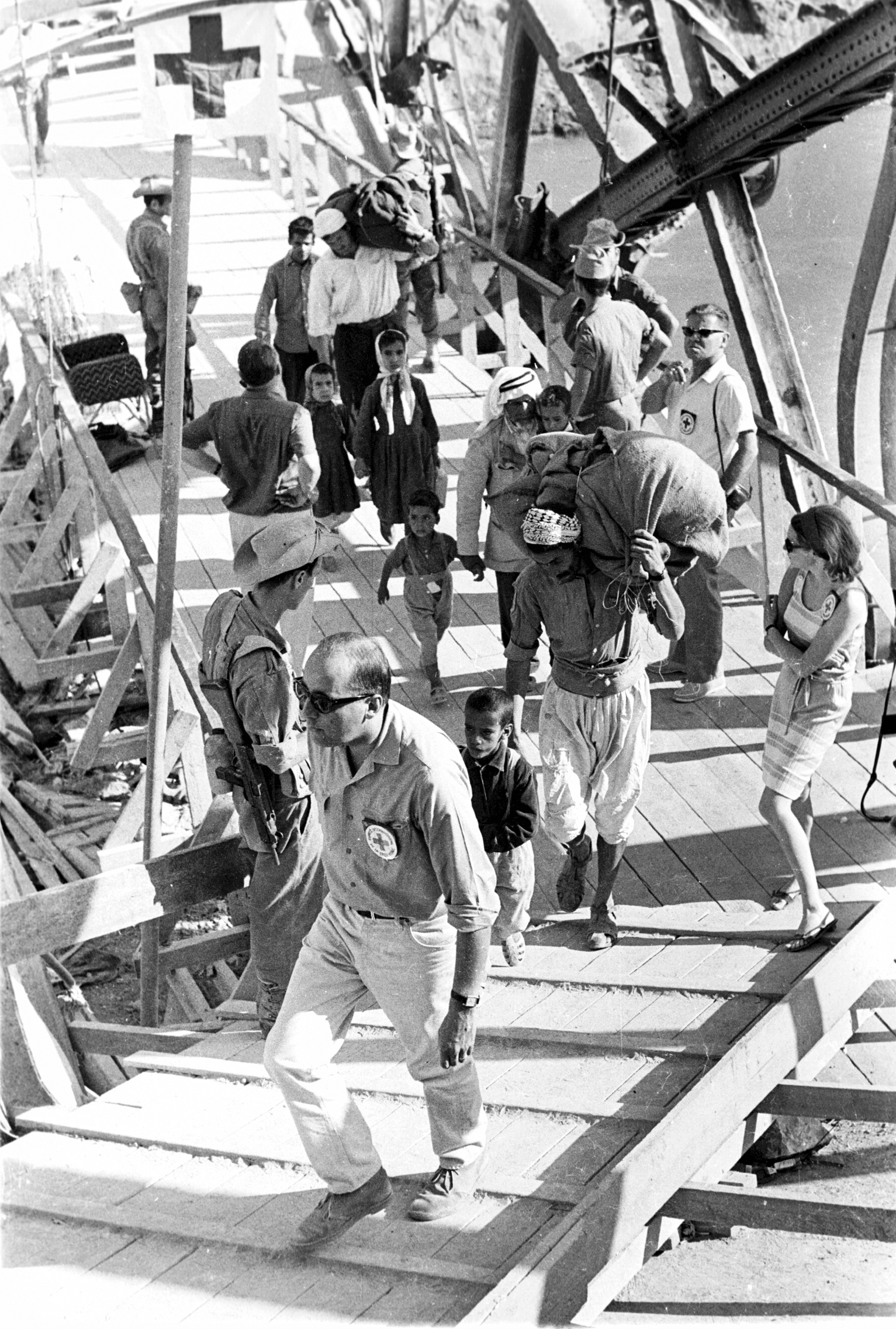 Palestinian refugees passing the destroyed Allenby Bridge over the Jordan River on way home from Jordan were they fled during the 6-Day-War.